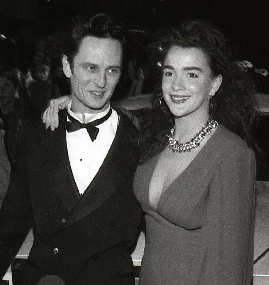 Thomas Eriksson (Orup) and Sofia Eklöf at his 30th birthday party